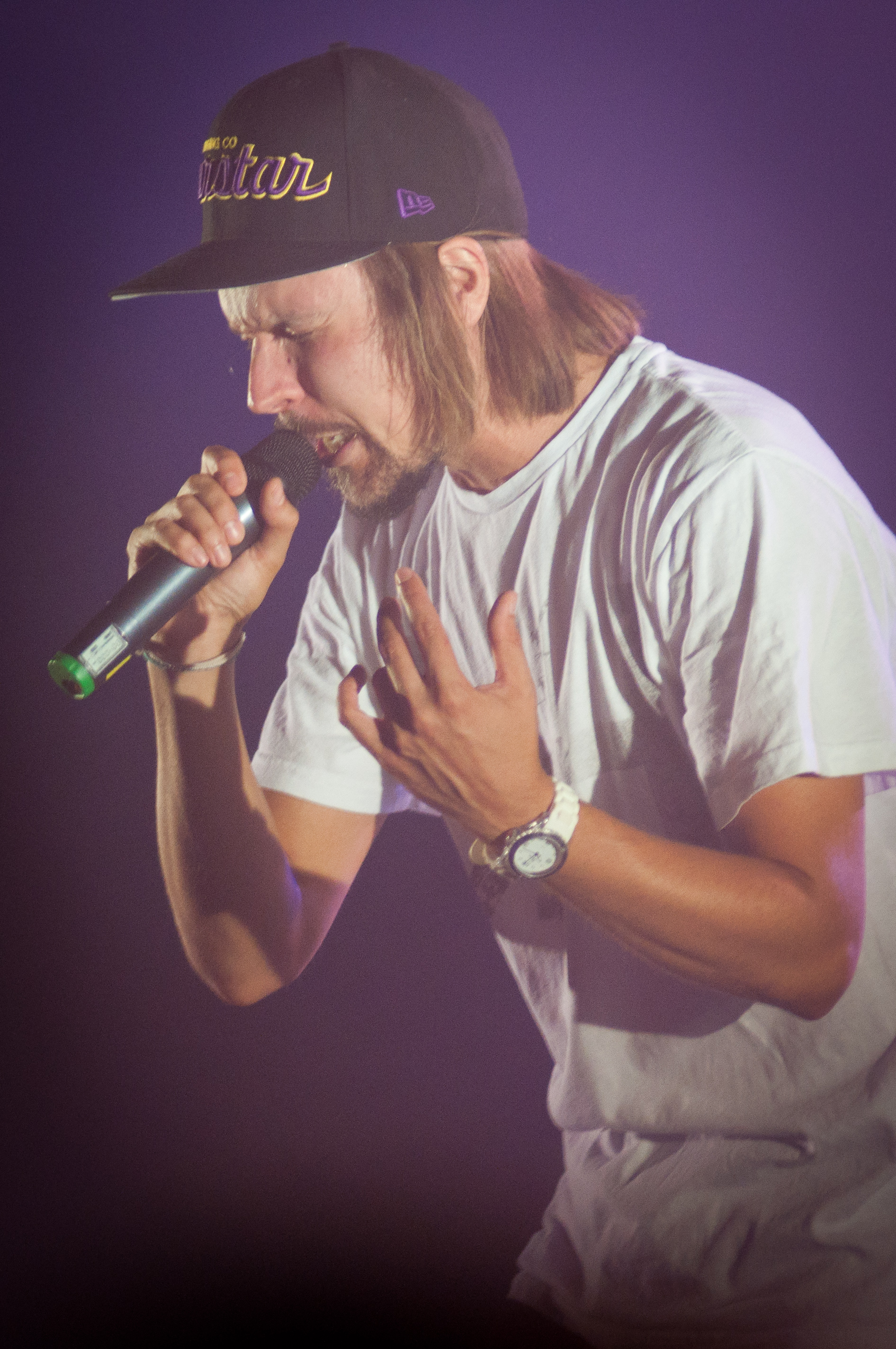 Finnish reggae artist Jukka Poika performing in Lappeenranta, Finland.